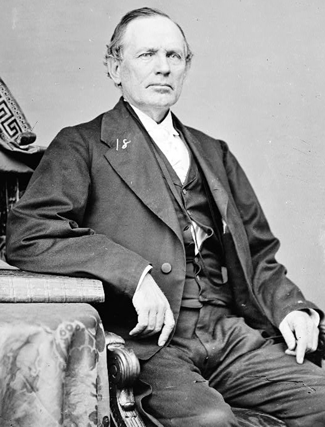 John Edwards, US Representative from Arkansas